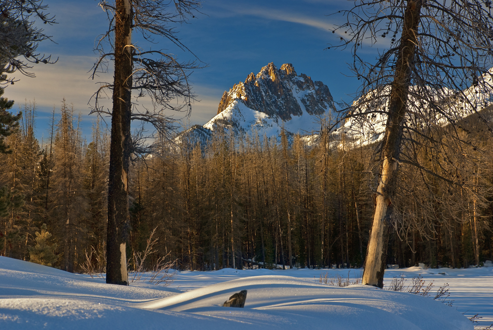 This is a shot from Little Redfish lake with what is left of that warm morning light. I actually set this up for a photo assignment, rule of thirds. I tried to include every third I could find.